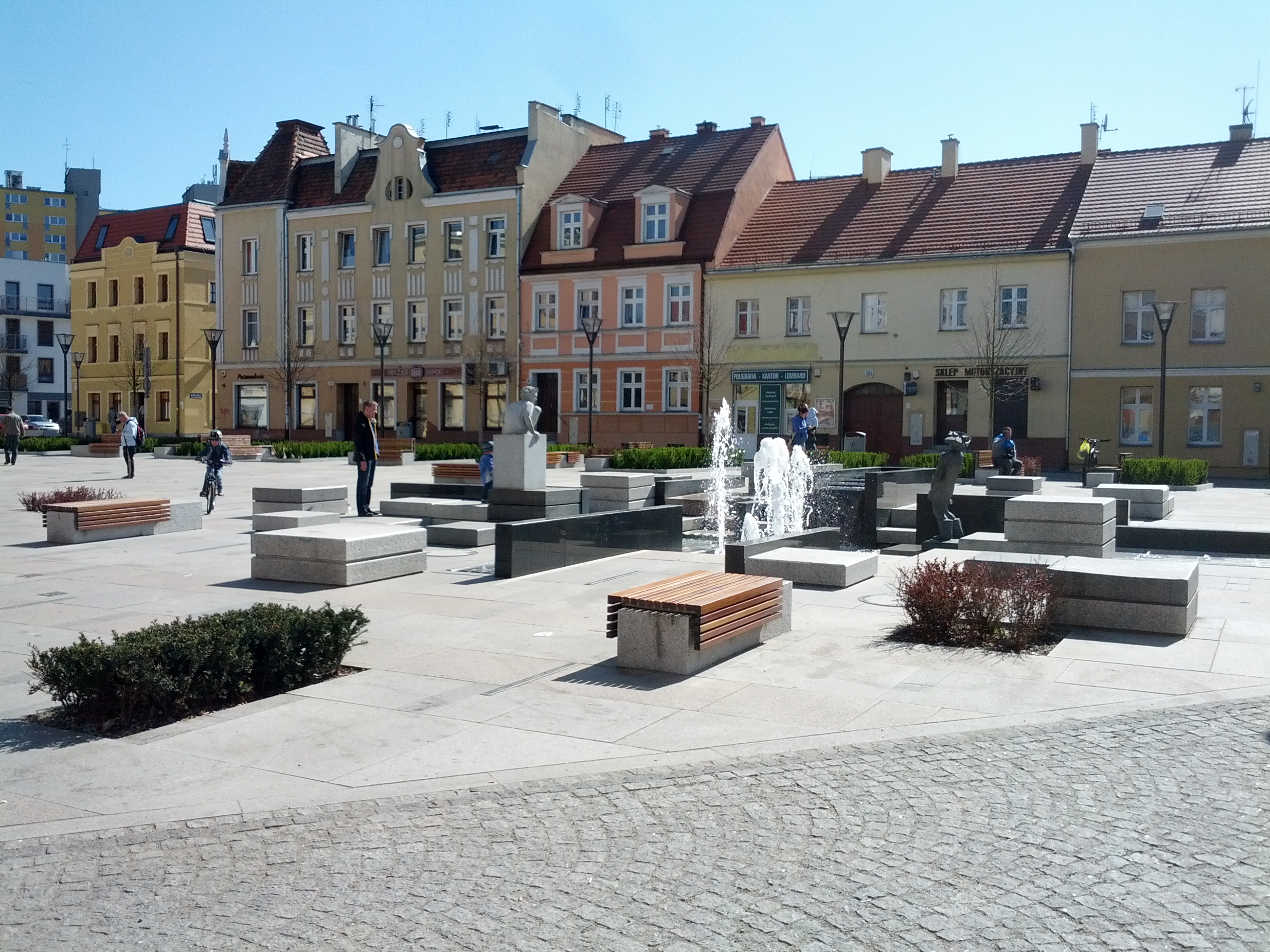 Wroclaw Psie Pole Old Market